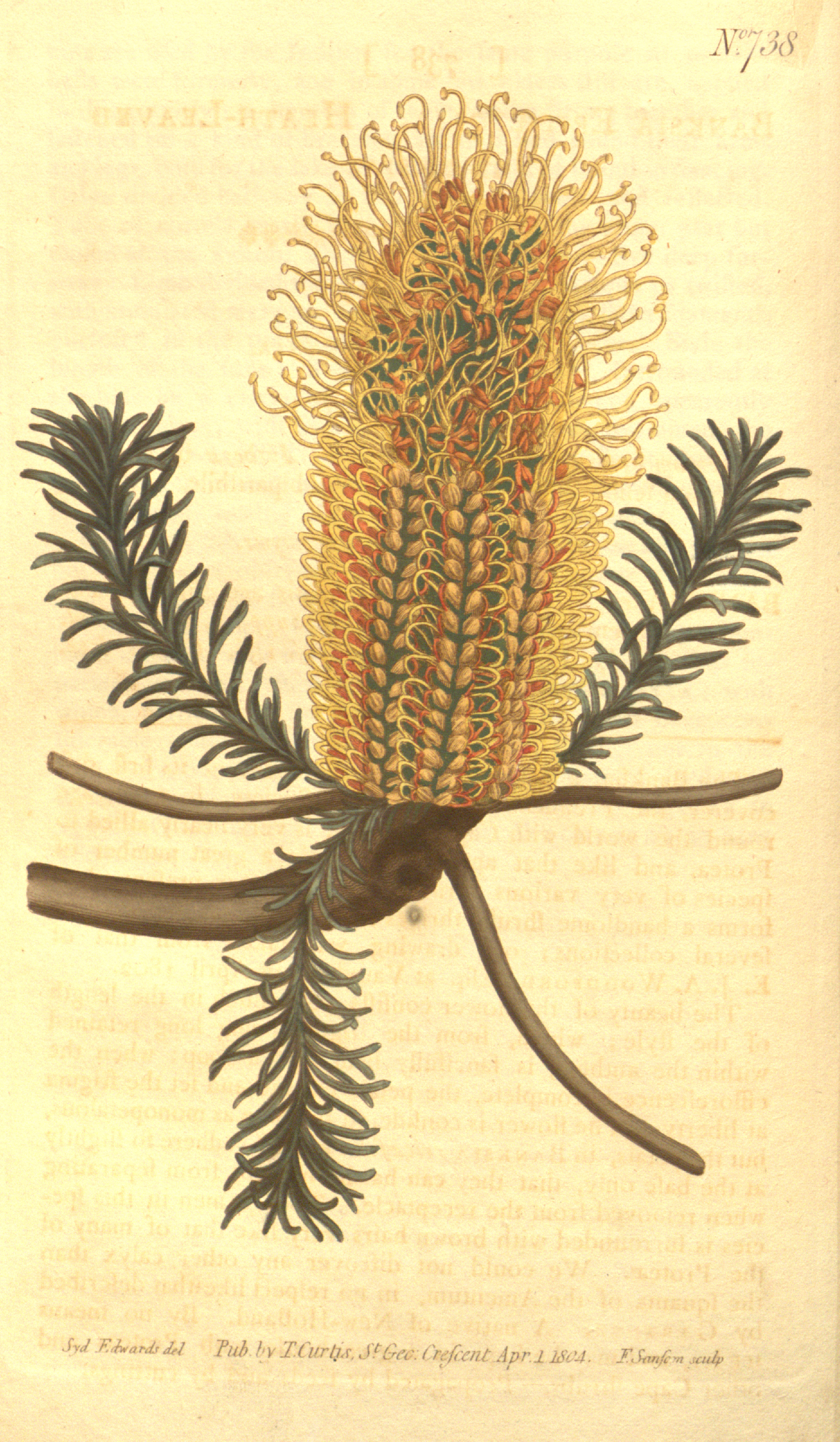 This digital image is a reproduction of an illustration of a species identified as Banksia ericifolia.